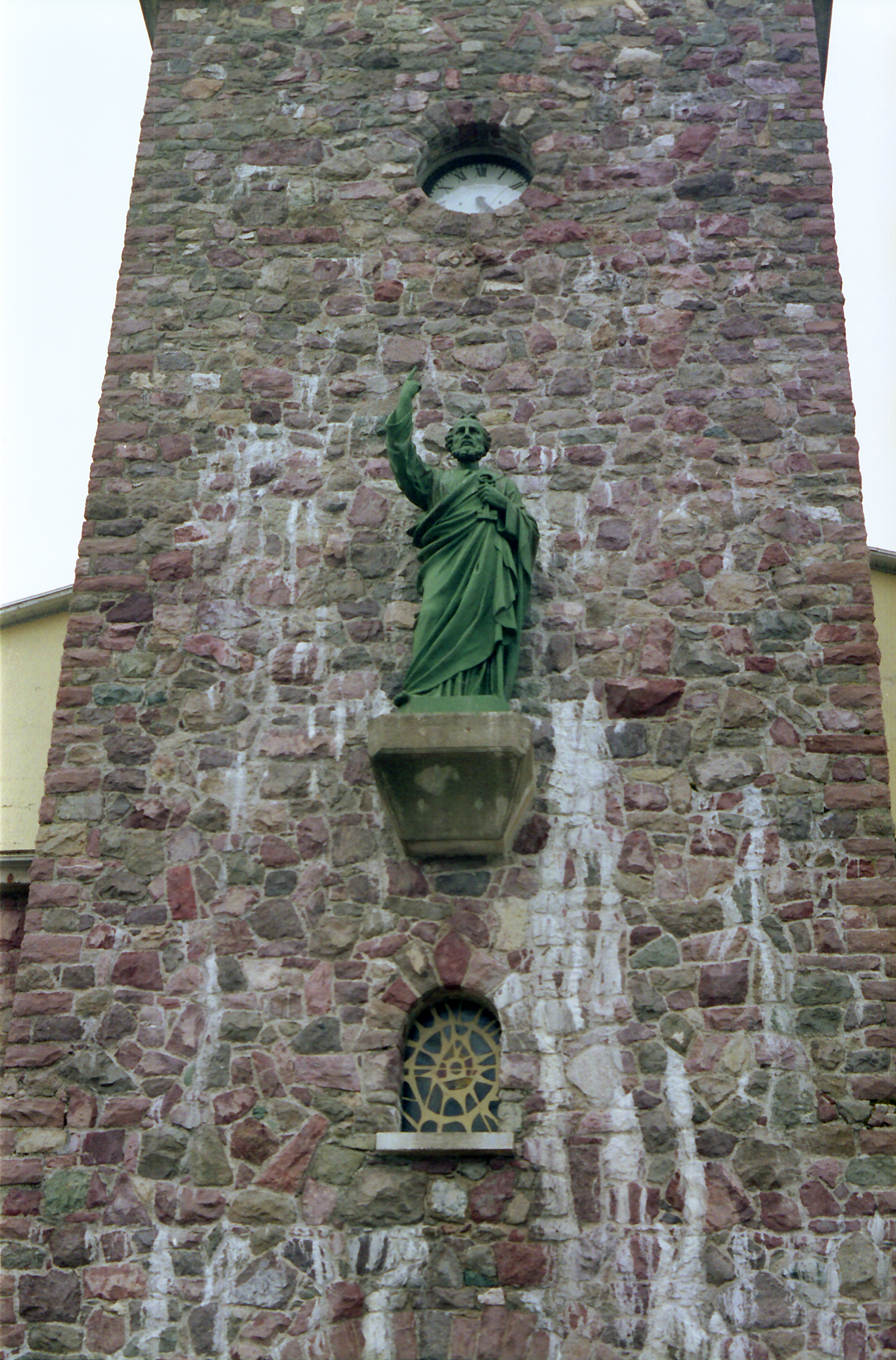 Bronze statue on the cathedral in central St. Pierre, France (near Newfoundland, Canada)